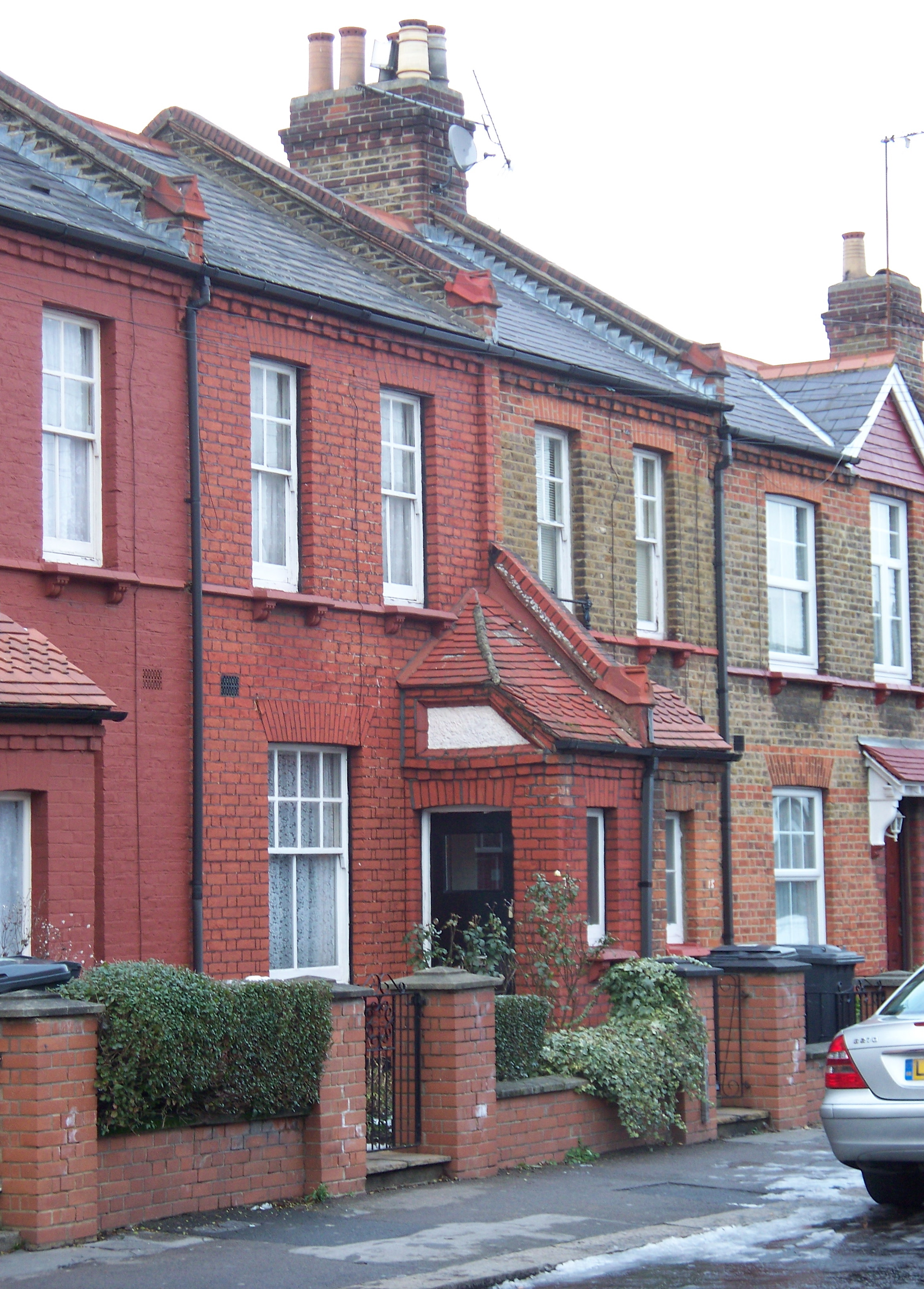 Noel Park, London N22. Photograph taken in a public location in the UK of a building on permanent public display, and exempt from copyright under Section 62 of the Copyright Designs & Patents Act 1988 ("it is not an infringement of copyright to film, photograph, broadcast or make a graphic image of a building, sculpture, models for buildings or work of artistic craftsmanship if that work is permanently situated in a public place or in premises open to the public")